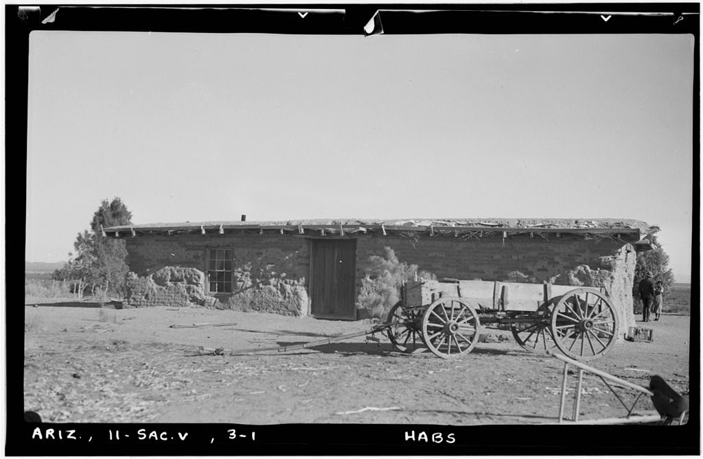 Indian House with Bow Roof, Sacaton vicinity, Pinal County, AZ URL: Historic American Buildings Survey F. D. Nichols, Photographer January 1938 GENERAL VIEW HABS ARIZ,11-SAC.V,3-1